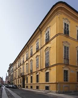 Palazzo Galli